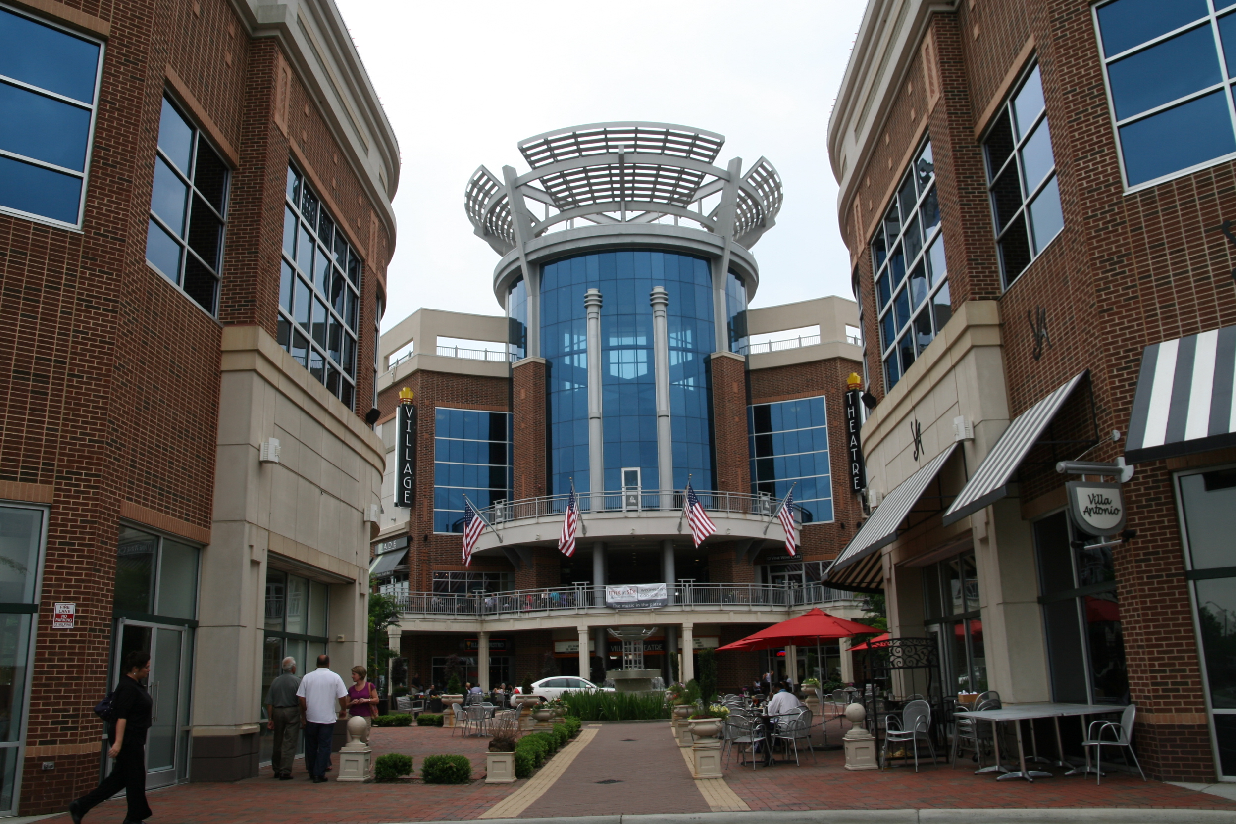 Entrance of the Ballantyne Village complex, in Charlotte, North Carolina.